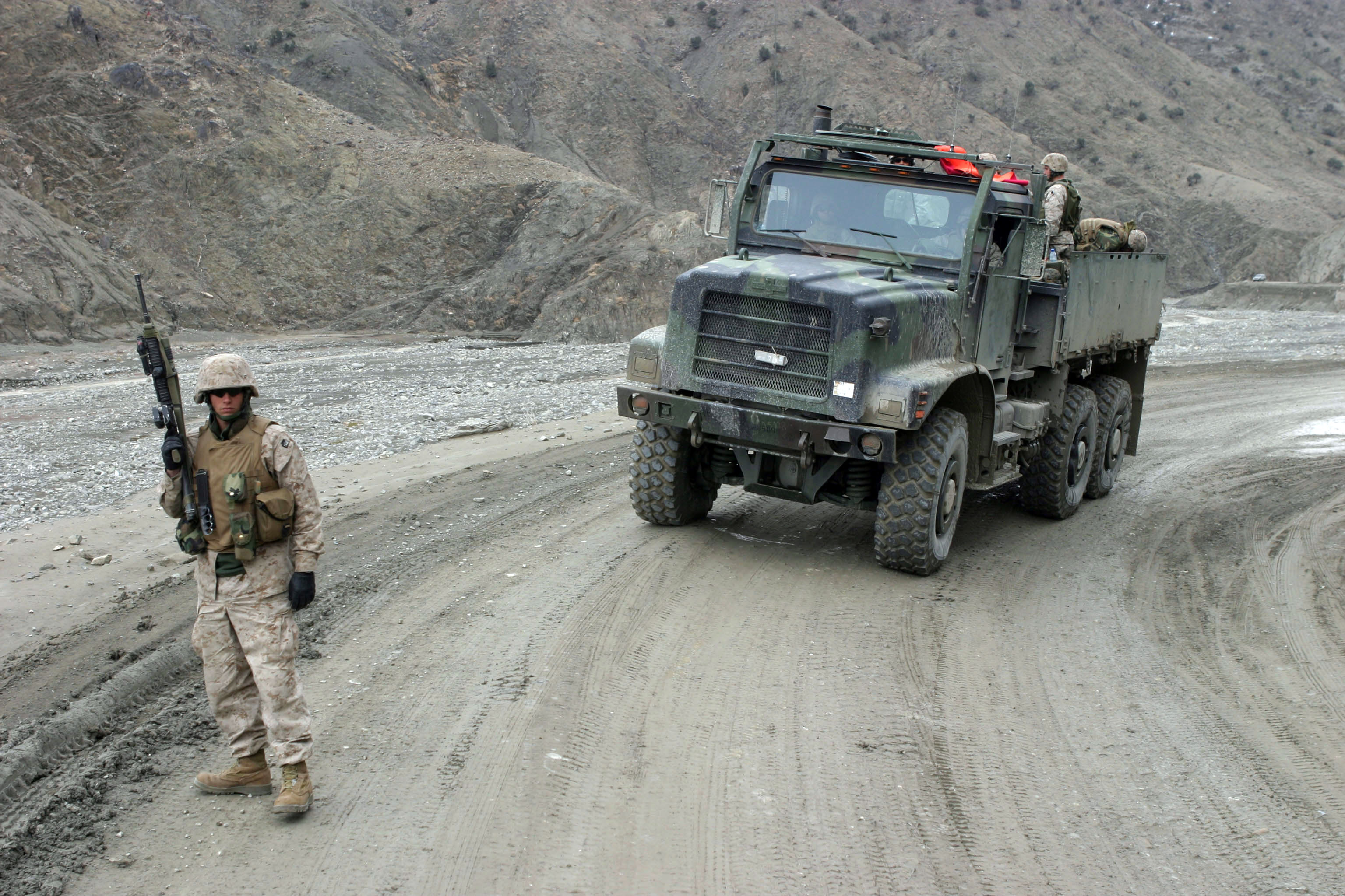 Khowst-Gardez Pass, Afghanistan (December 30, 2004) - A U.S. Marine, assigned to Weapons Company, 3rd Battalion, 3rd Marine Regiment, provides security while in the Khowst-Gardez Pass, Afghanistan. The 3rd Battalion, 3rd Marine Regiment is conducting security and stabilization operations in support of Operation Enduring Freedom.